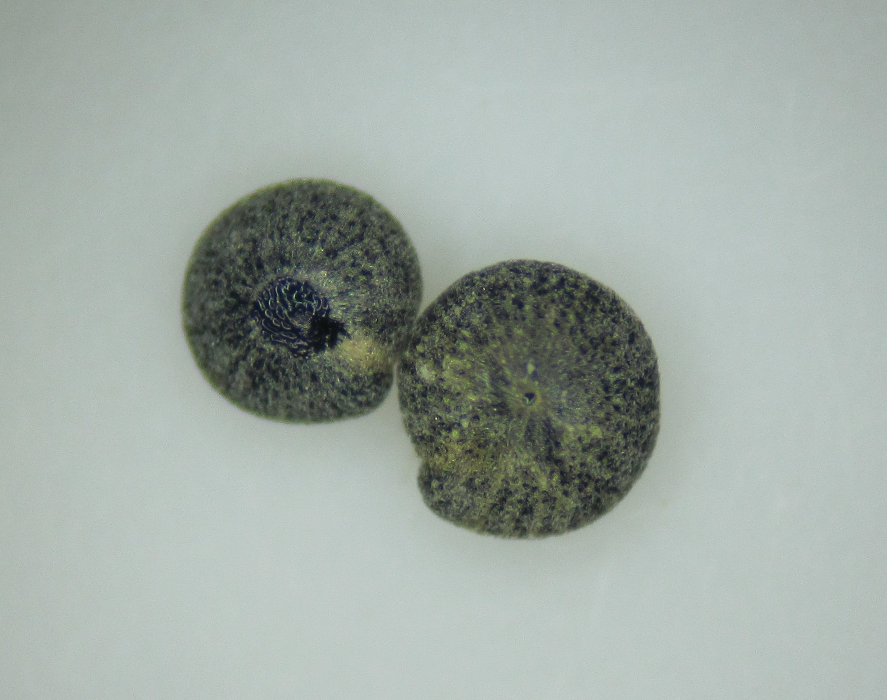 Seeds of Chenopodium ficifolium. Seeds provided by the North Central Regional Plant Introduction Station. Accession: PI 658749